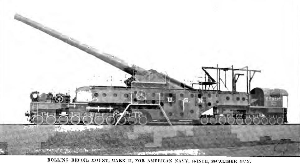 Photograph of US 14 inch 50-caliber gun on Mk II railway mounting. This model was introduced too late for use in World War I.